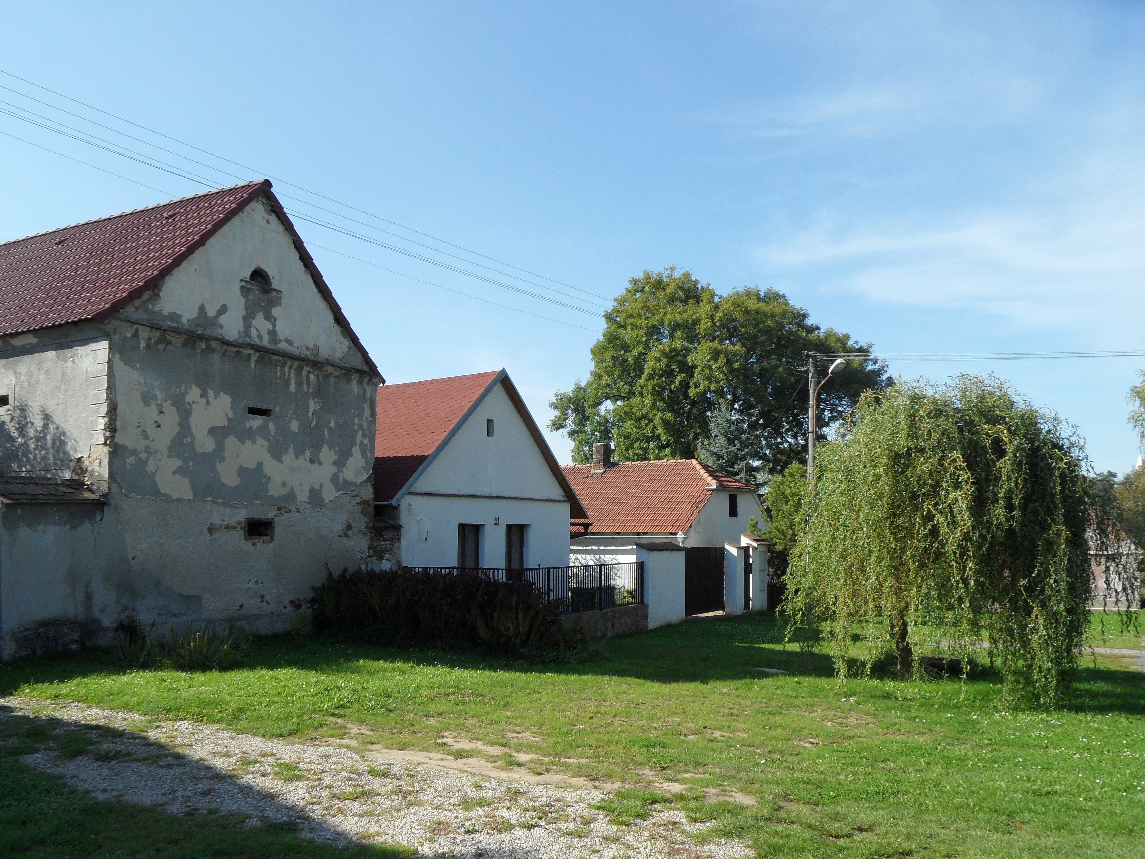 Vinařice (Týnec nad Labem) B. Houses at the Village Square, South-West Side, Kutná Hora District, the Czech Republic.